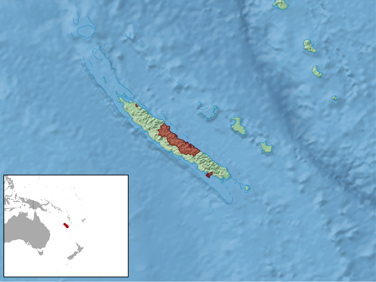 geographic distribution of Nannoscincus gracilis